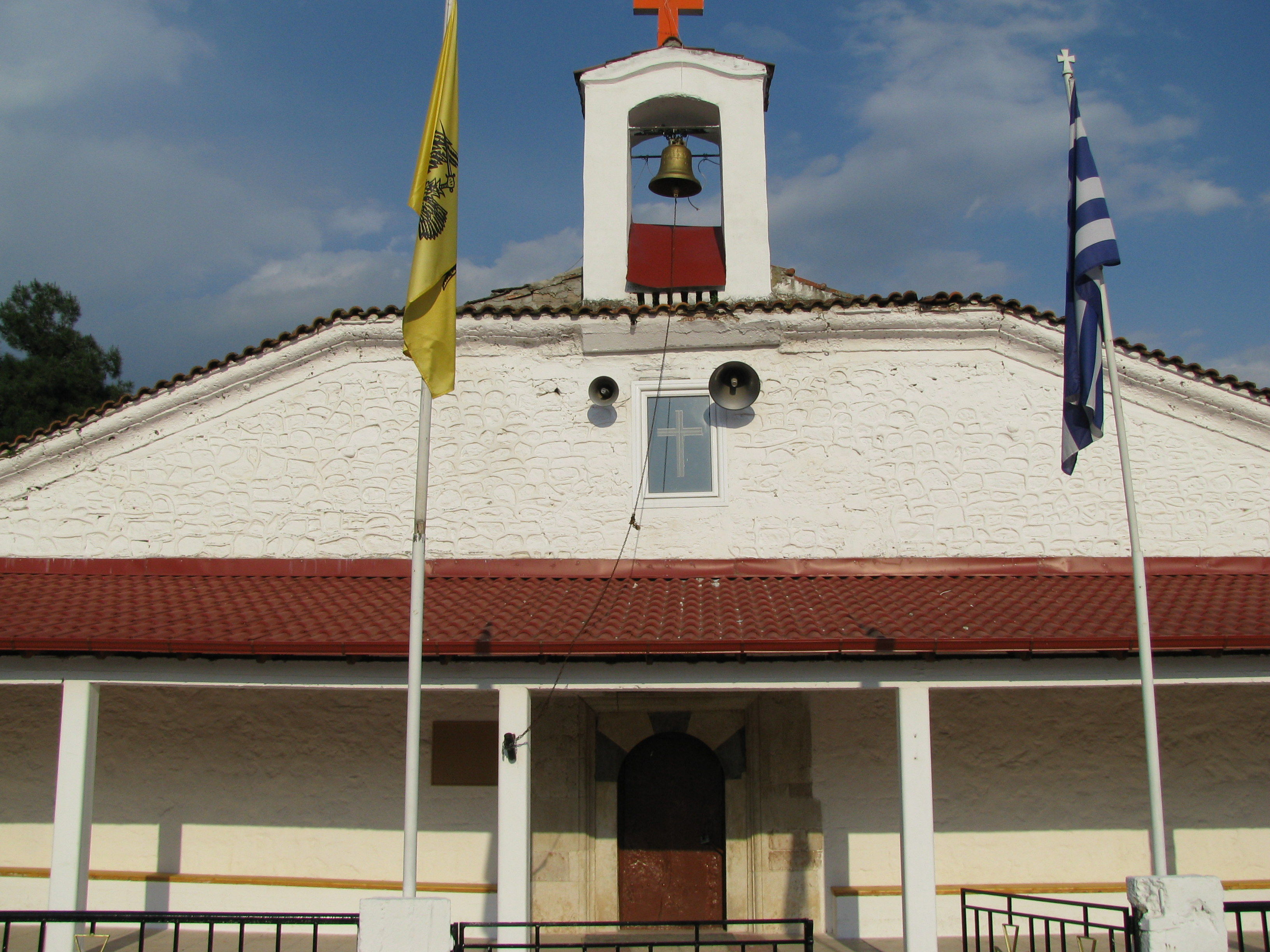 Old church of Paleos Milotapos, Giannitsa, Pella Prefecture, Greece